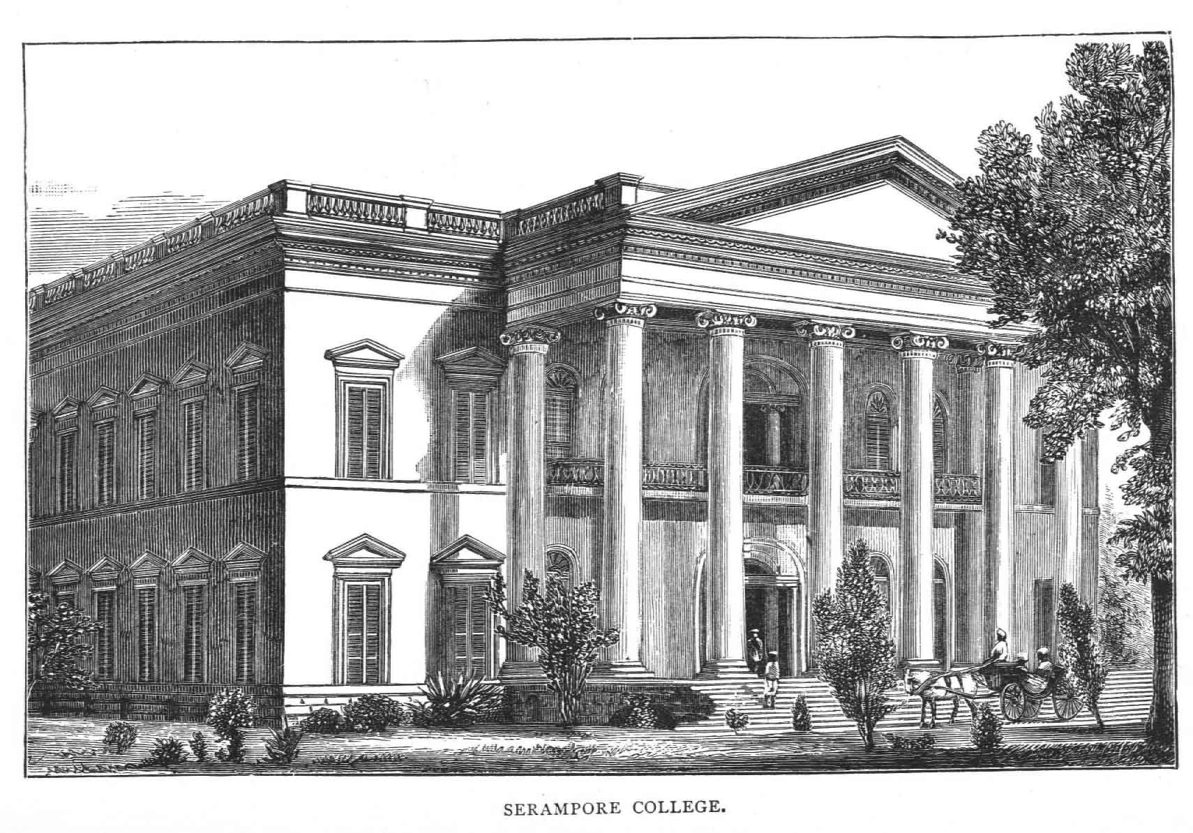 Drawing of Senate of Serampore College (University) in West Bengal